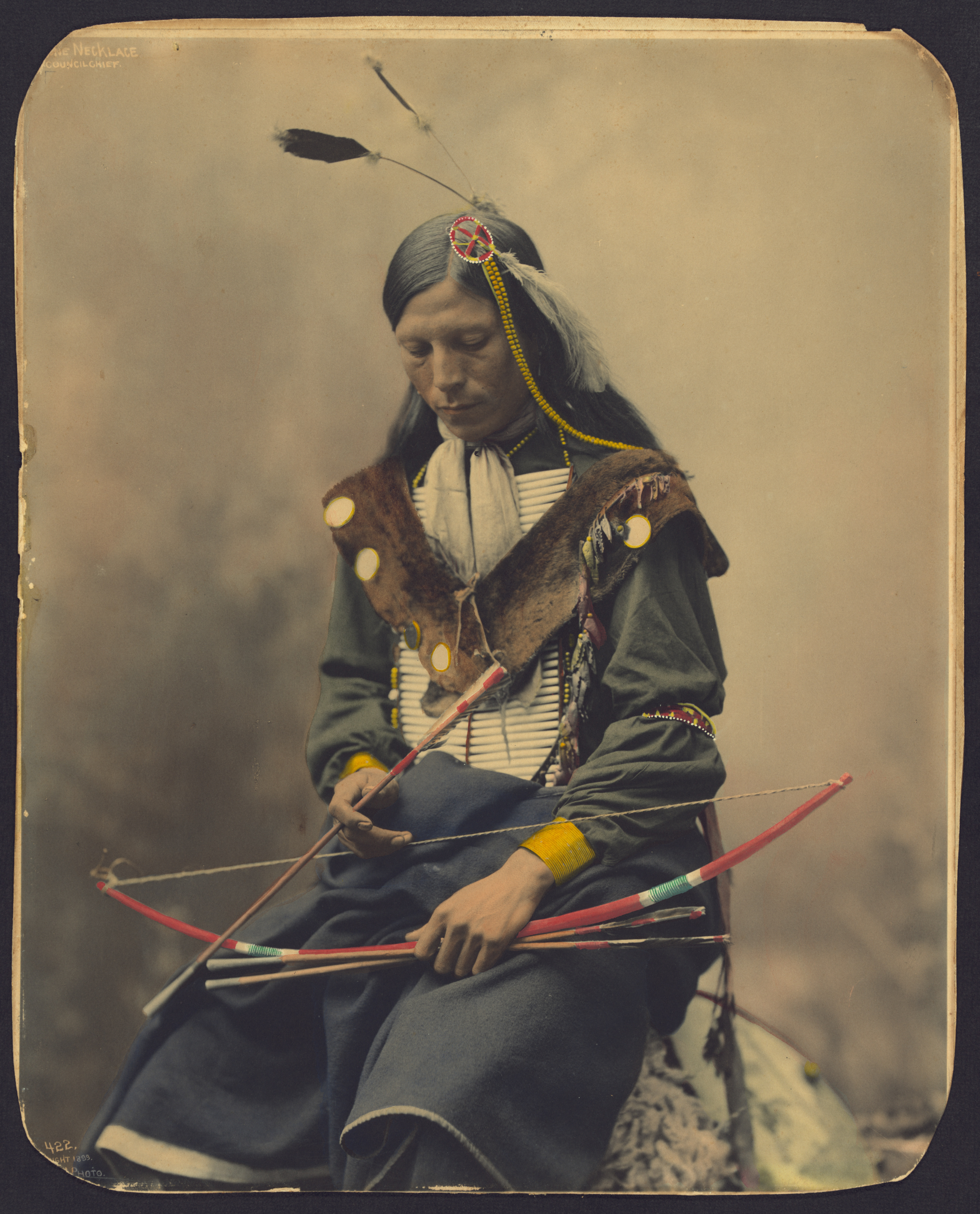 Chief Bone Necklace of the Oglala Lakota — photographed in 1899 by Heyn Photo